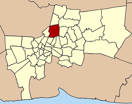 Map of Bangkok, Thailand, highlighting the district Chatuchak.